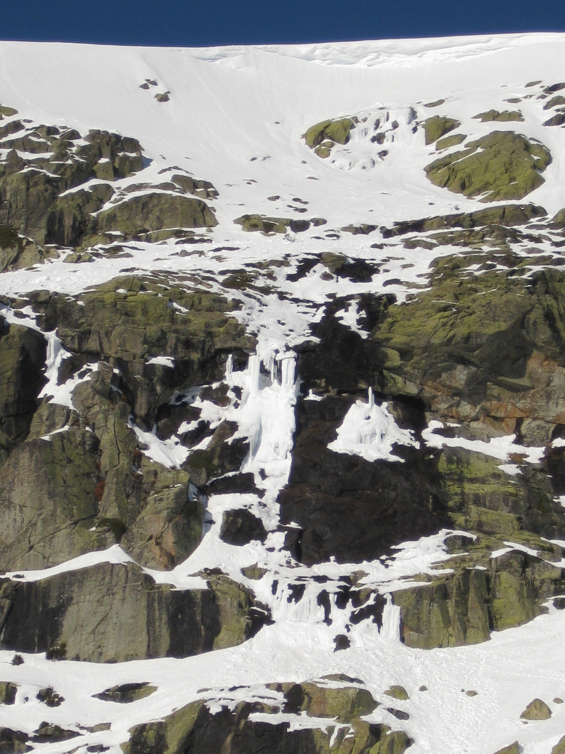 Frozen waterfalls in the Peñalara glaciar circus (Guadarrama mountain range, Central Spain).